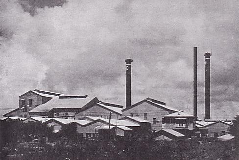 Factory of Nanyo Kohatsu